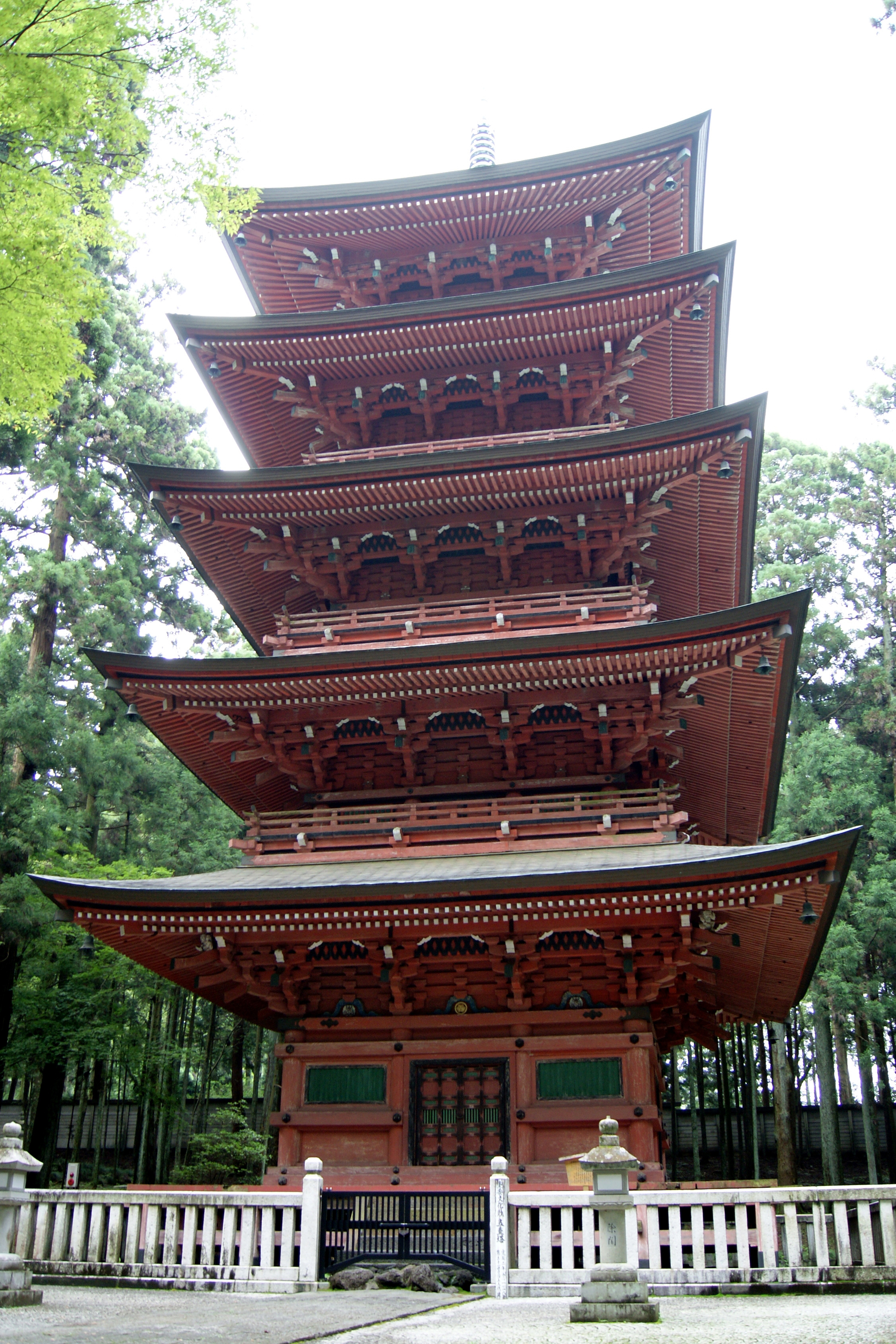 Five-storied Pagoda of Taiseki-ji.